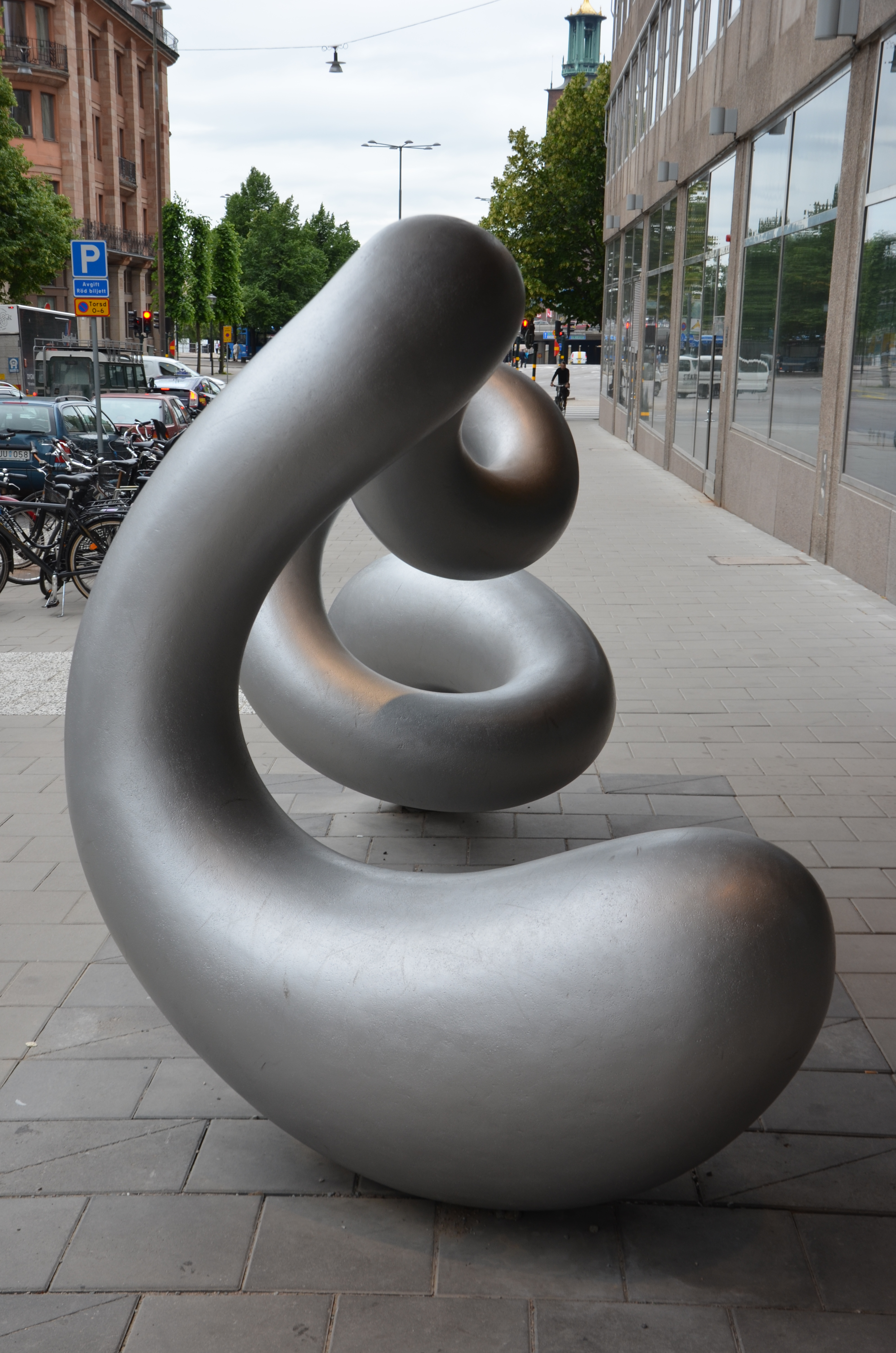 Eva Hilds Binär, Jakobsgatan i Stockholm